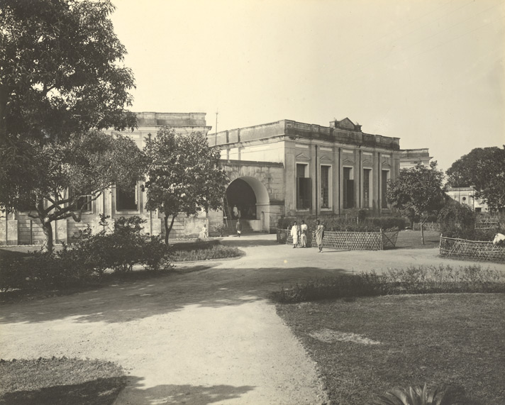 Mitford Hospital, Dhaka (1904), Photograph taken by Fritz Kapp in 1904, with a general view of the Mitford Hospital taken from the grounds, in Dacca (now Dhaka), part of an album of 30 prints from the Curzon Collection. The hospital is one of the largest in Dhaka and is part of the oldest medical institute in the country. It is situated in the old part of the city on the banks of the Buriganga river.